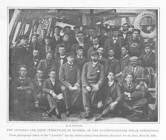 Officers and crew of the Baldwin-Ziegler Polar Expedition, 1901-1902